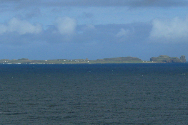 Tory Island - West to east view from 9 miles away As seen from a hillside between Meenaclady & Meenlaragh. Photo was taken with a camera with 432mm zoom lens and image stabilizer.